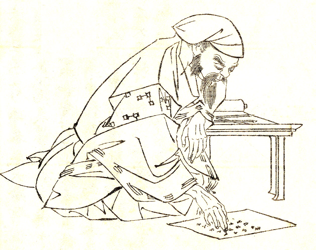 Kaya no Toyotoshi(賀陽豊年) was a japanese court noble and scholar in Heian period.